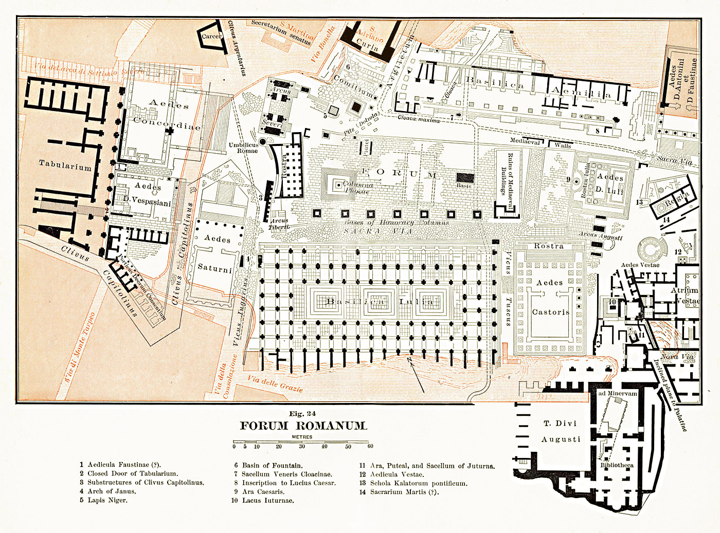 Map of the Roman Forum area. The scan from the original book was edited and corrected.